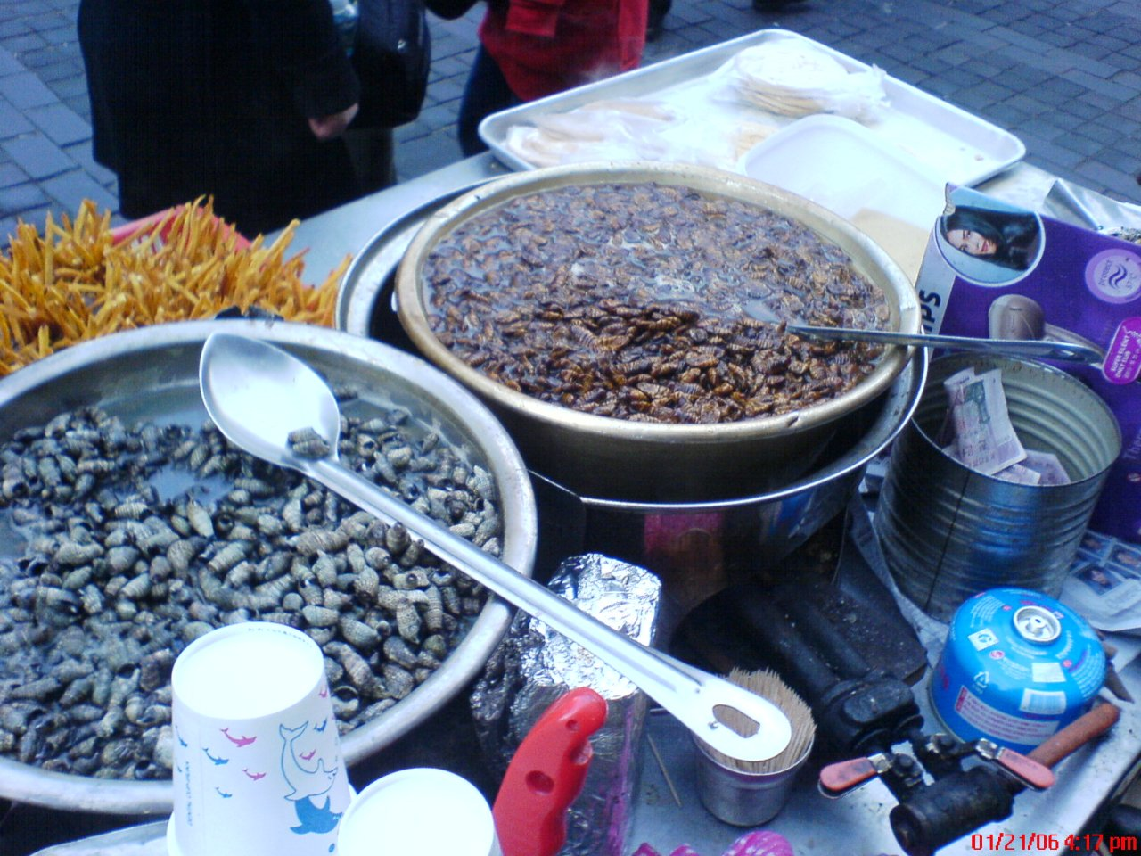 Boiled snails and silk worm larva. I was told this is generally eaten by older folks. I the silk worm larva tasted like eating wood.